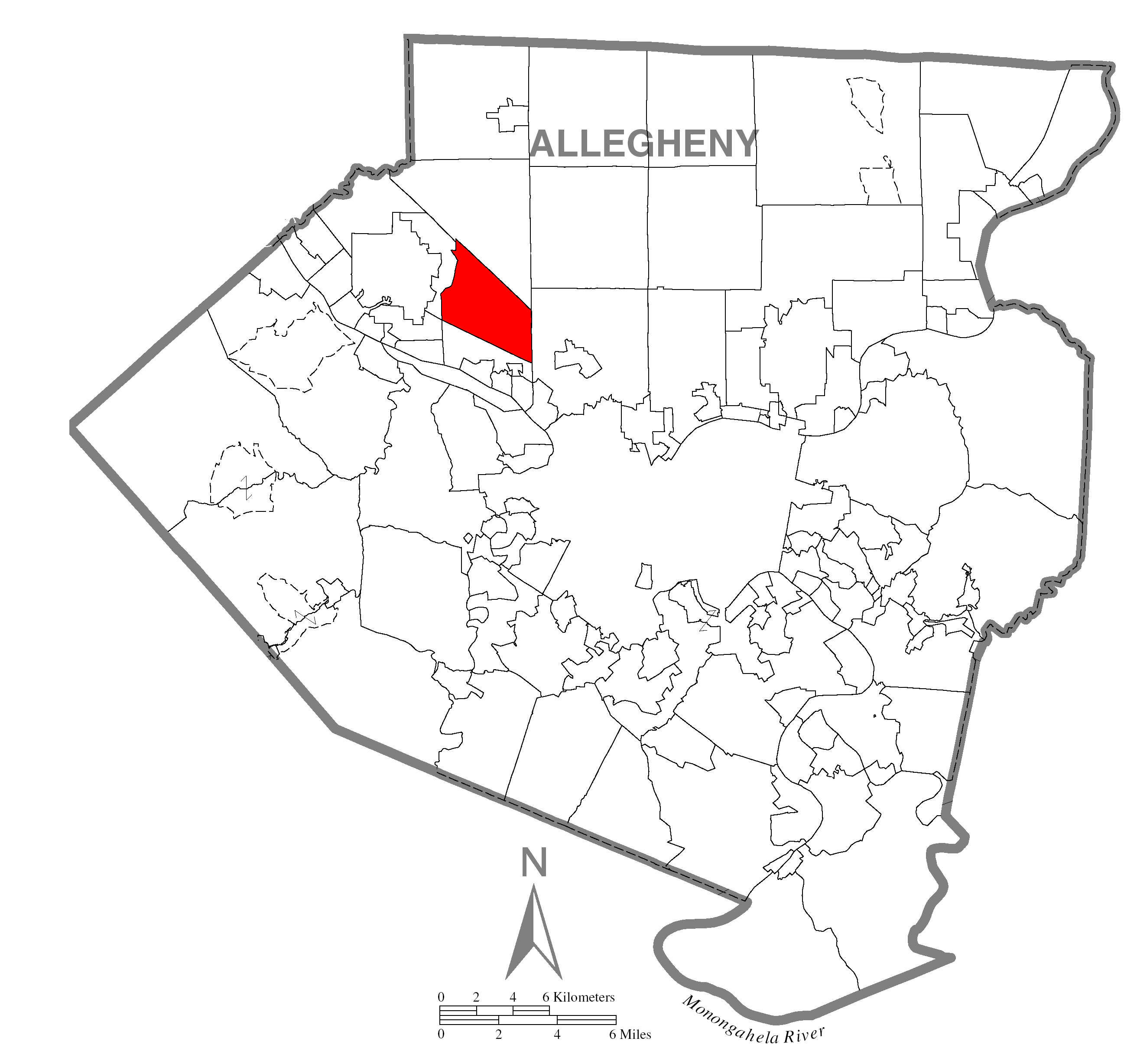 A map of Allegheny County showing Ohio Township, Pennsylvania (alternate) highlighted on the map.